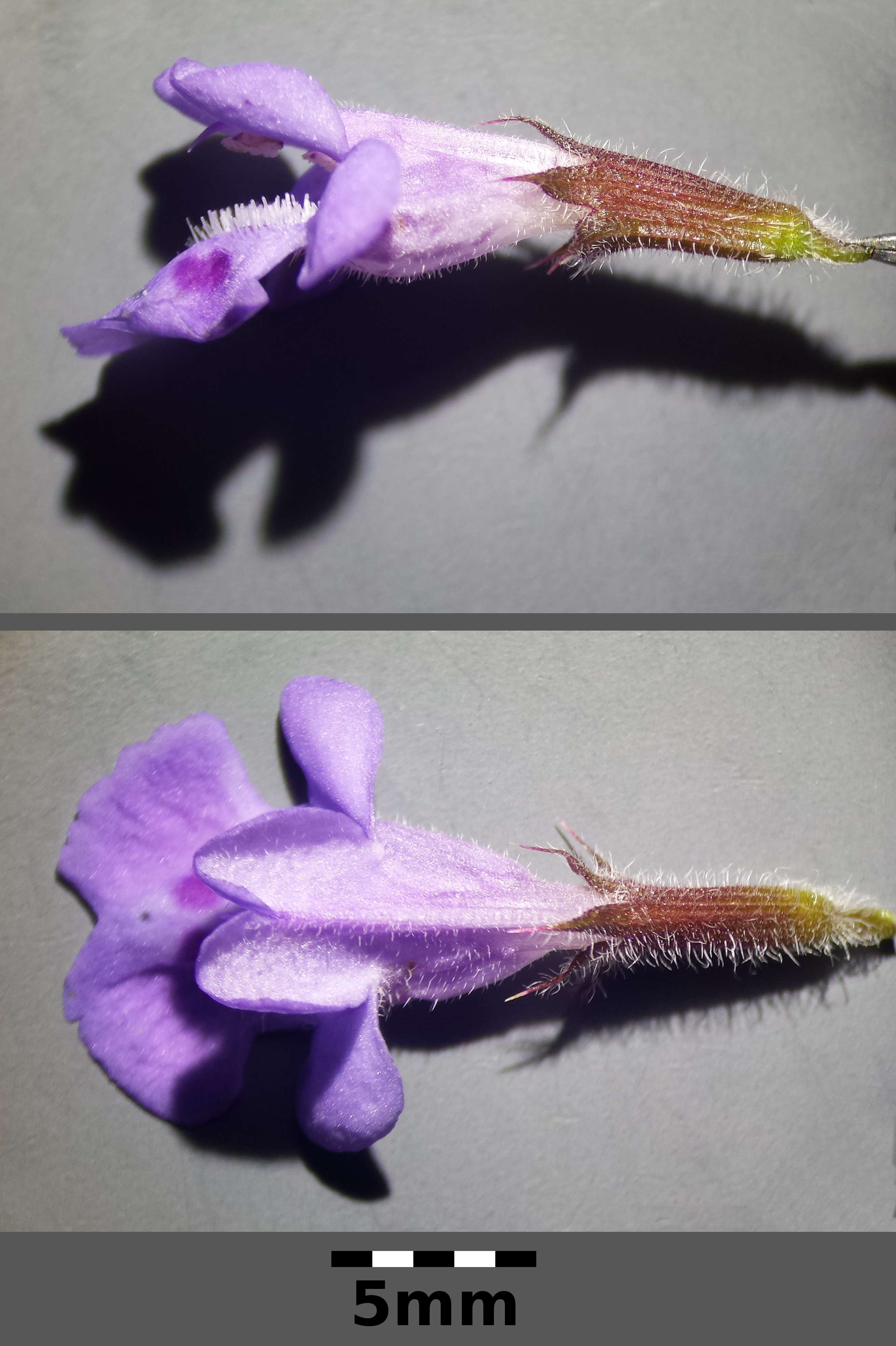 Flower Taxonym: Glechoma hirsuta ss Fischer et al. EfÖLS 2008 ISBN 978-3-85474-187-9 Location: Hundsheimer Berg, district Bruck an der Leitha, Lower Austria - ca. 450 m a.s.l. Habitat: edge of the woods